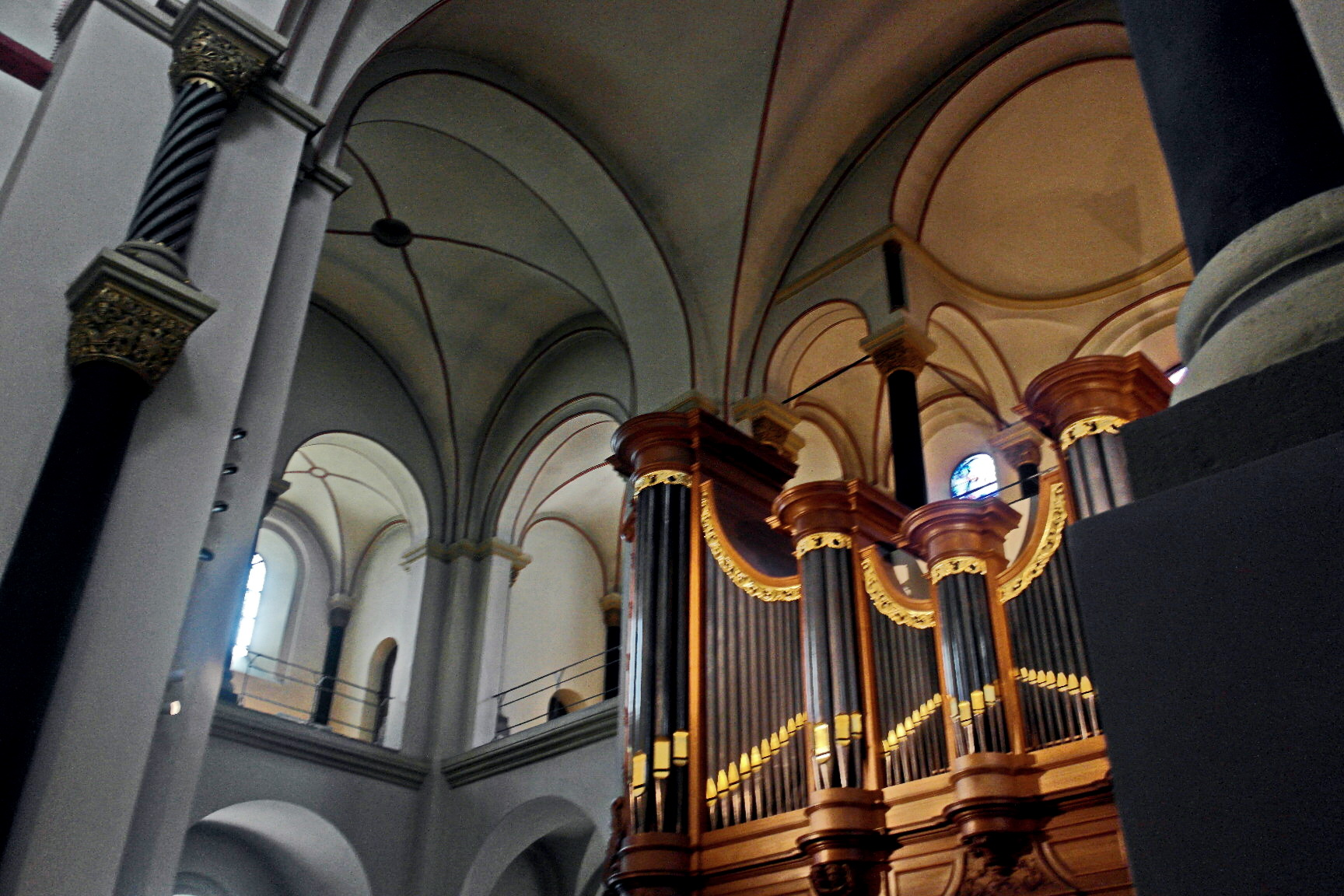 View of the southern galleries of the Westwork in the Basilica of Saint Servatius in Maastricht, the Netherlands.